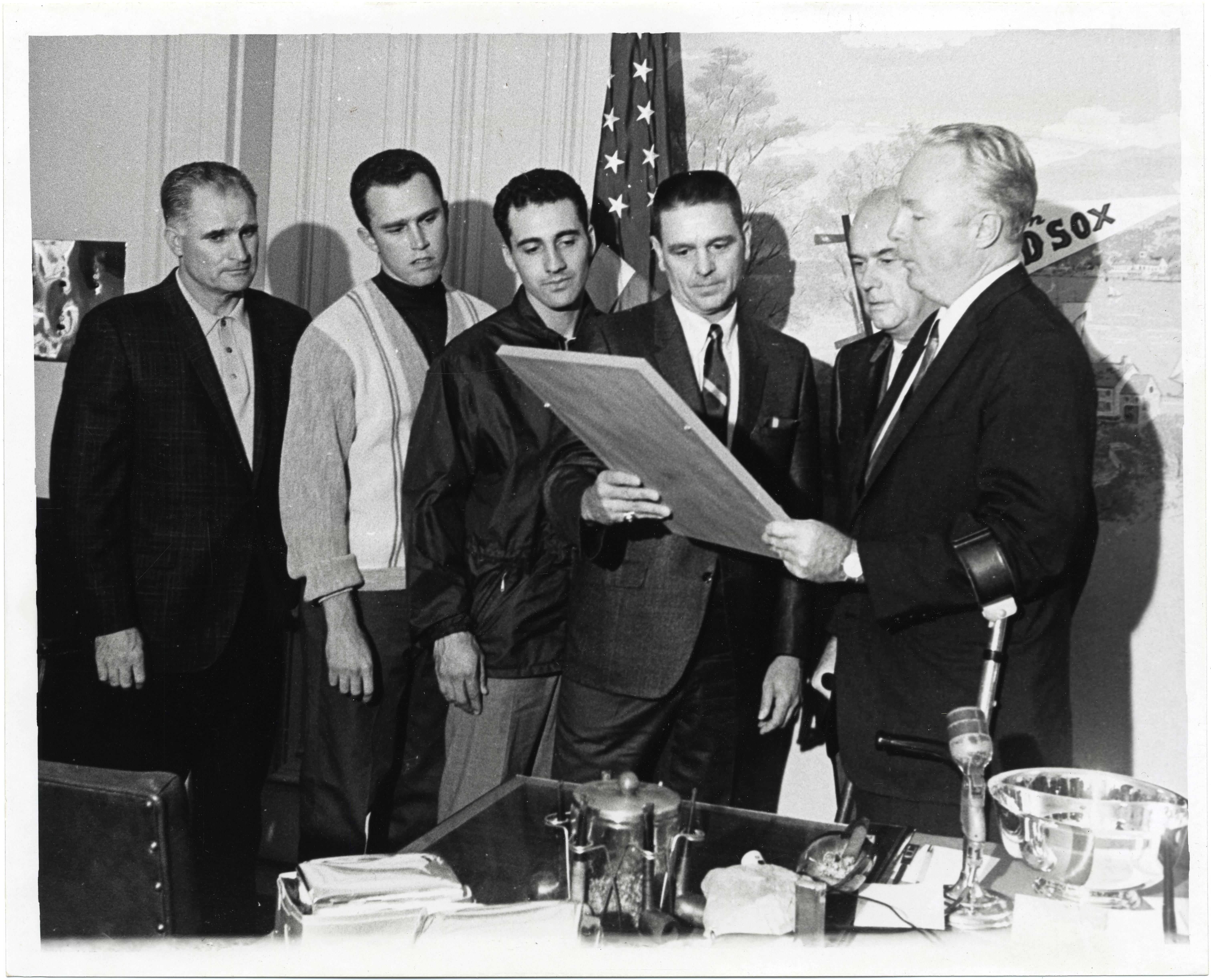 Title: Mayor John F. Collins reads an official proclamation declaring last Tuesday as Boston Red Sox Day, as Manager Dick Williams of Pennant winning Red Sox looks on. Also shown are Coach Bob Doerr, a member of the 1946 American League championship team and infielder Dalton Jones and Rico Petrocelli. Red Sox Vice President Dick O'Connel is shown between Williams and Collins. Creator: City of Boston Date: circa 1960-1968 Source: Mayor John F. Collins records, Collection #0244.001 File name: 244001_1223 Rights: Copyright City of Boston Citation: Mayor John F. Collins records, Collection #0244.001, City of Boston Archives, Boston